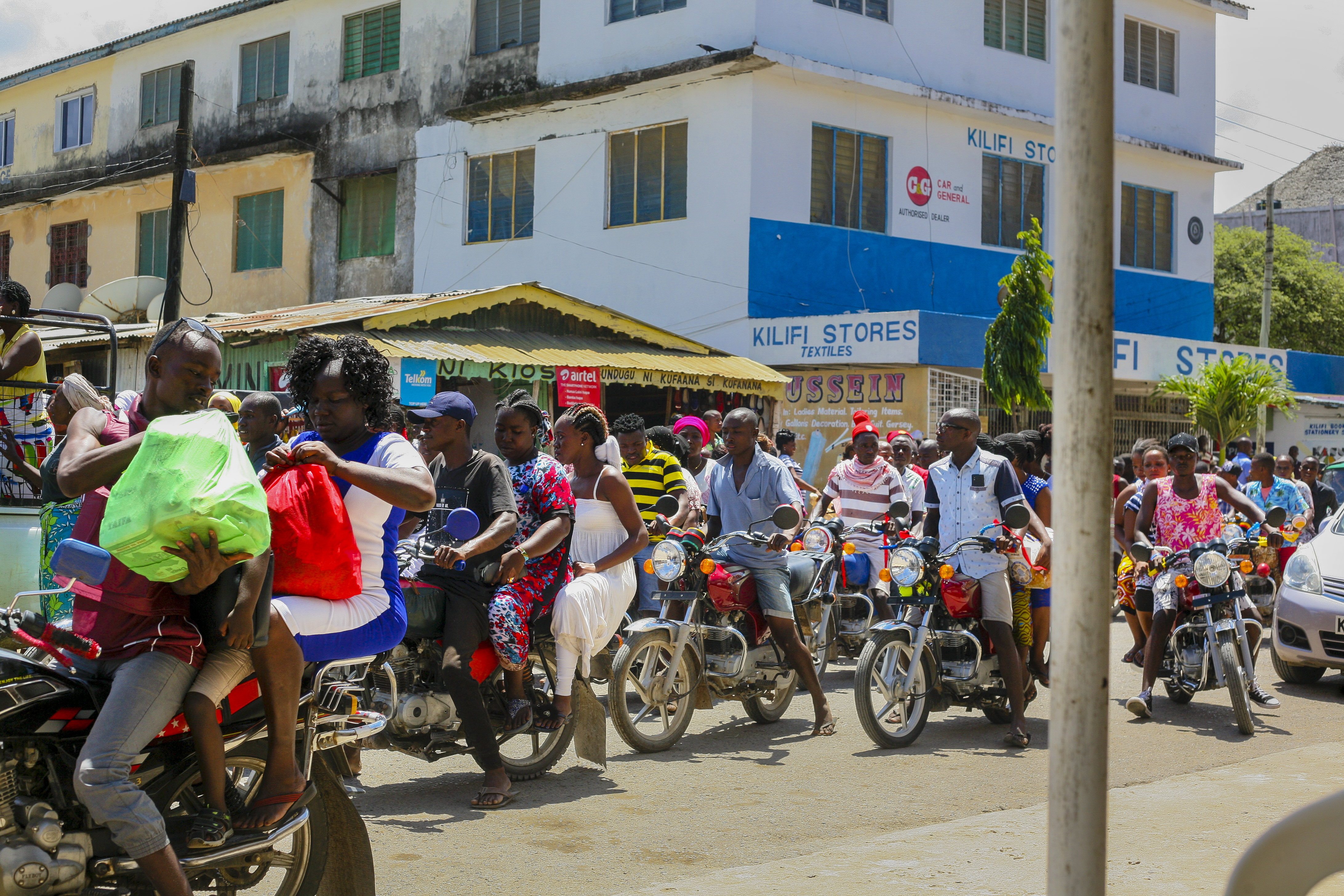 Kilifi is one of the poorest county in Kenya found a line the coastline of Indian Ocean. The population is unemployed and boda boda (motorcycle) transport is the biggest job business done in these communities since transportation is a challenge and among-st this society This is an image with the theme "Africa on the Move or Transport" from: Kenya